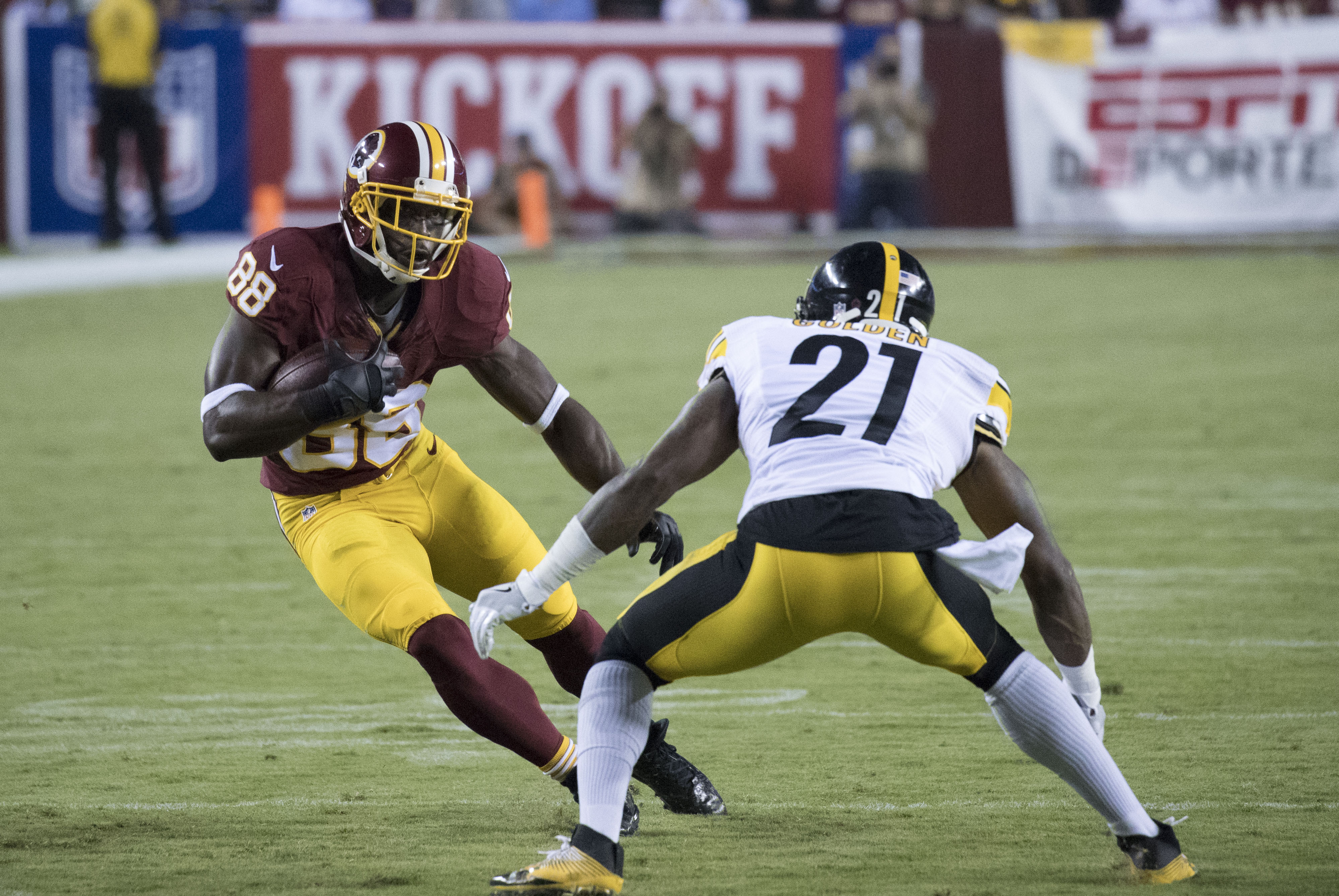 Steelers at Redskins 9/12/16